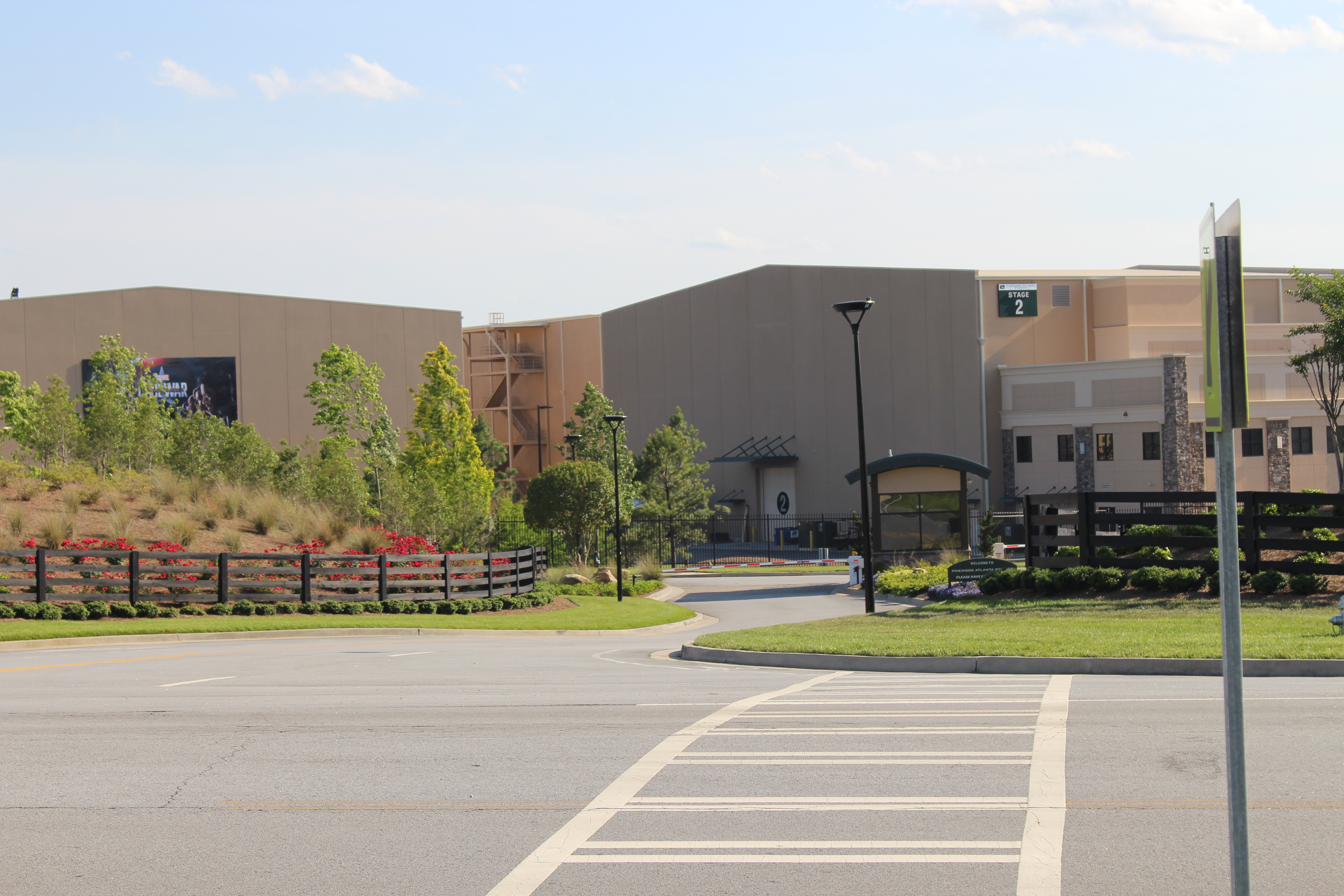 Pinewood Atlanta Studious, Sandy Creek Rd, Fayetteville, Fayette County, Georgia. Not sure if it is technically in Fayetteville or not, Google Maps show this as just north of the Fayetteville city limits.